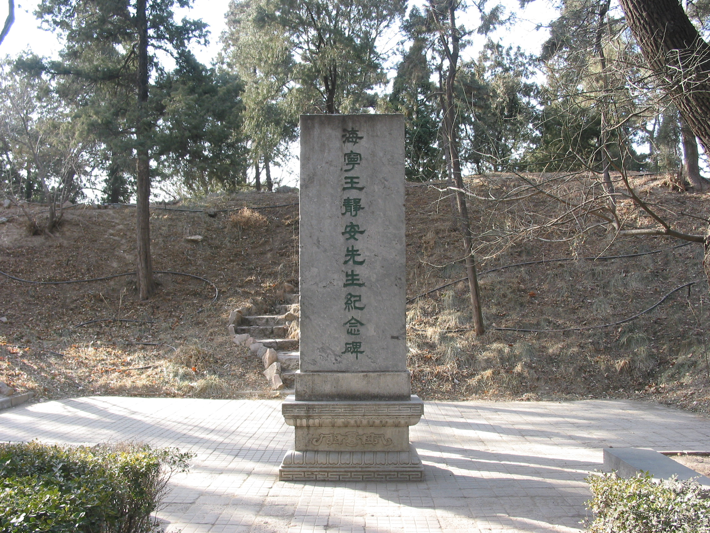 The monument of Wang Guowei in Tsinghua University, north to the Classroom No.1 (第一教室), front-view.